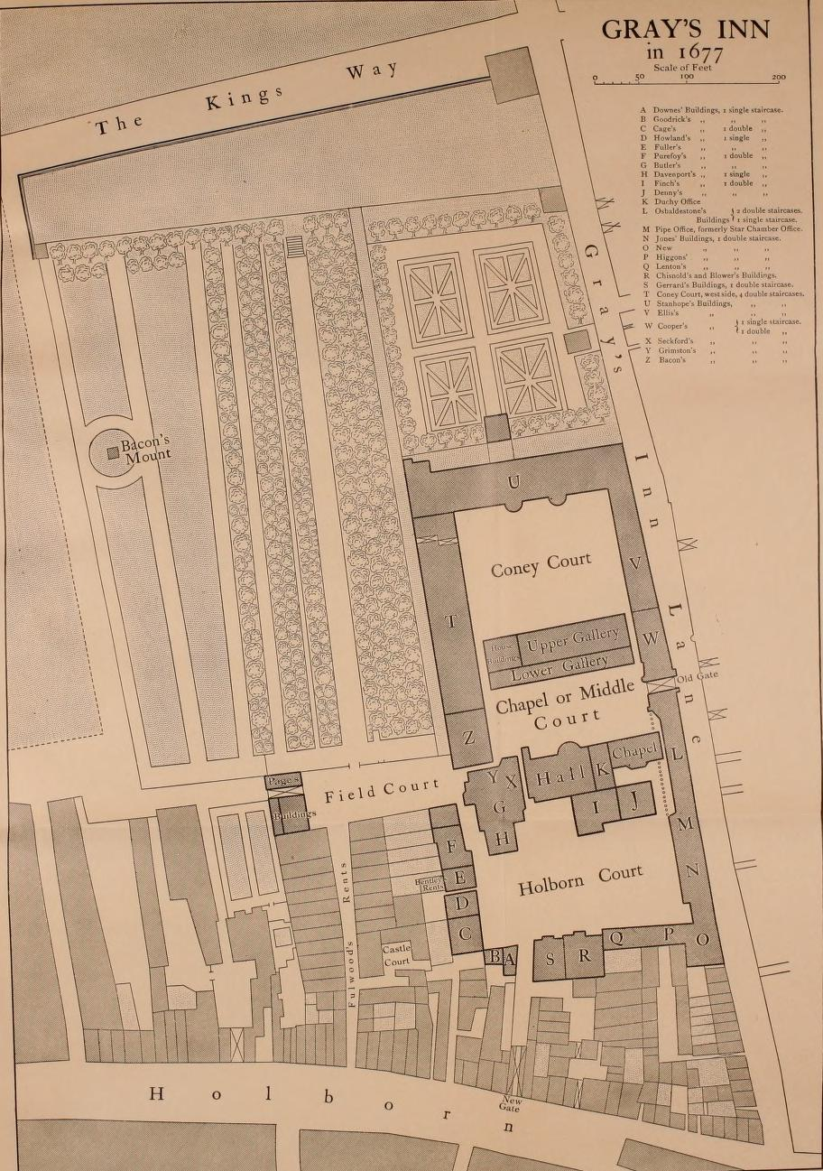 A map of Gray's Inn as it stood in 1677